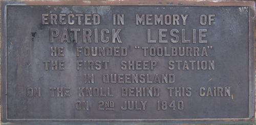 Plaque commemorating Patrick Leslie in the locality of Cunningham, south east Queensland, Australia